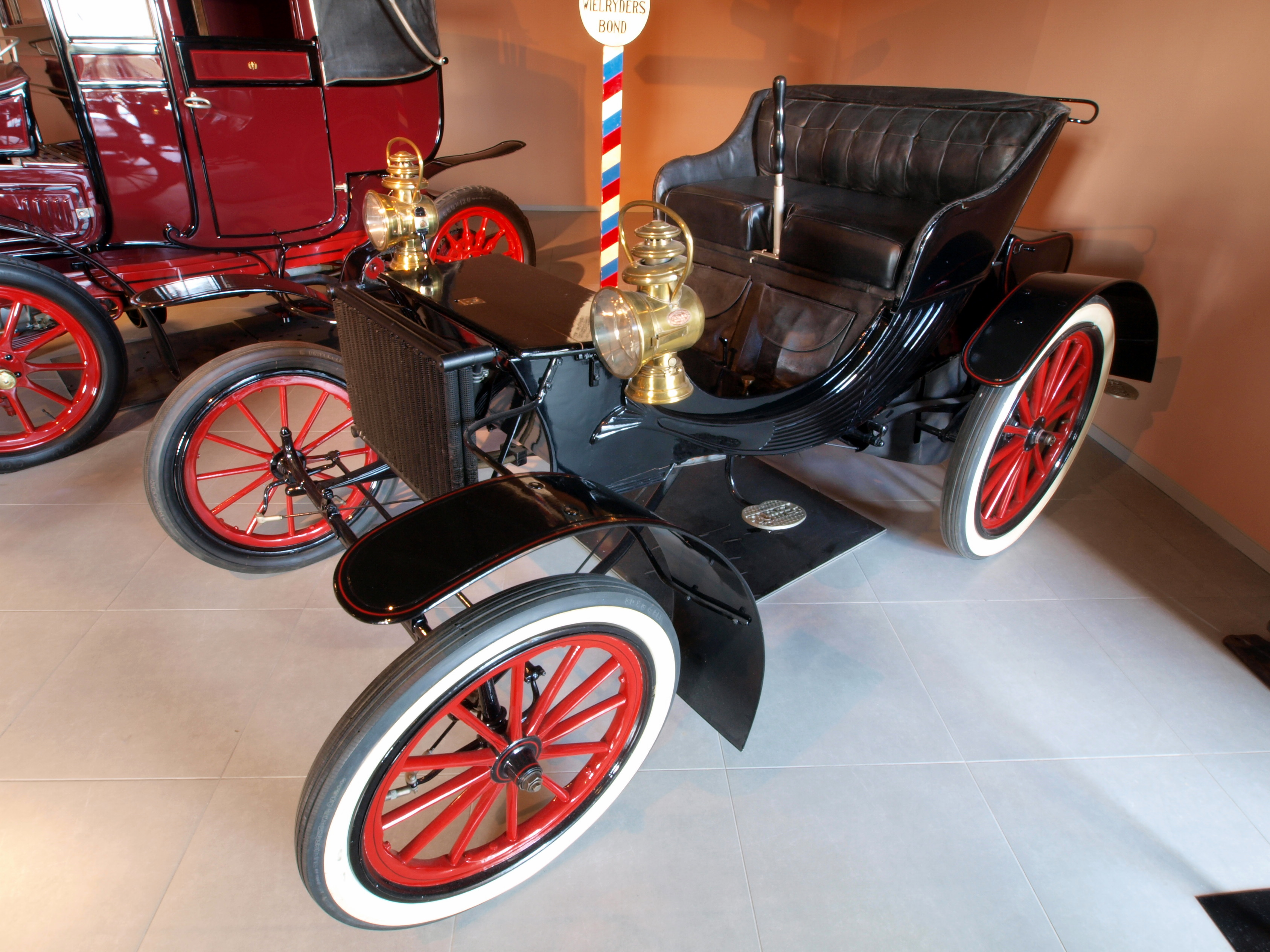 Photographed at the Louwman museum, The Netherlands.